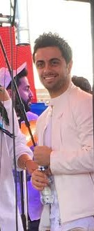 Erik at the 2018 Armenian protests